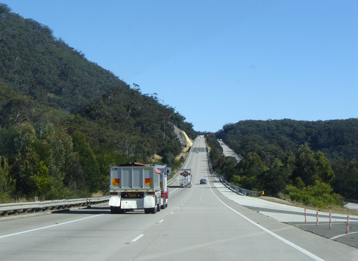 A section of the Hume highway in NSW, Australia. After crossing a bridge and twisting through mountains the road opens up briefly with a wide space on both sides. It's the best bit of the trip from Sydney to Goulburn.